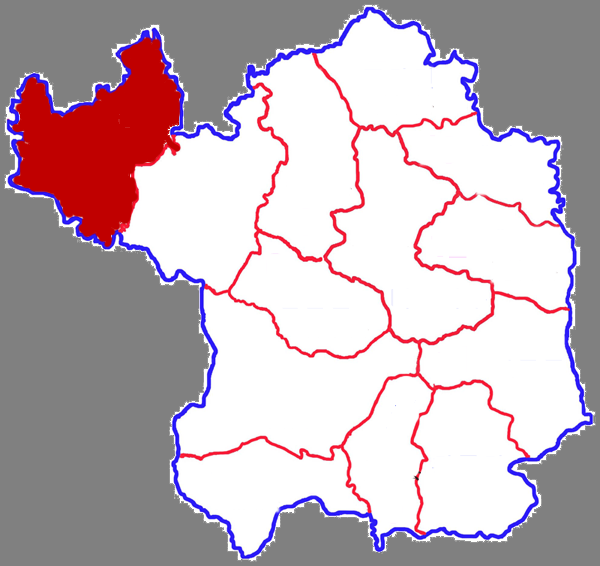 Location of Wuqi county in Yan'an city, China